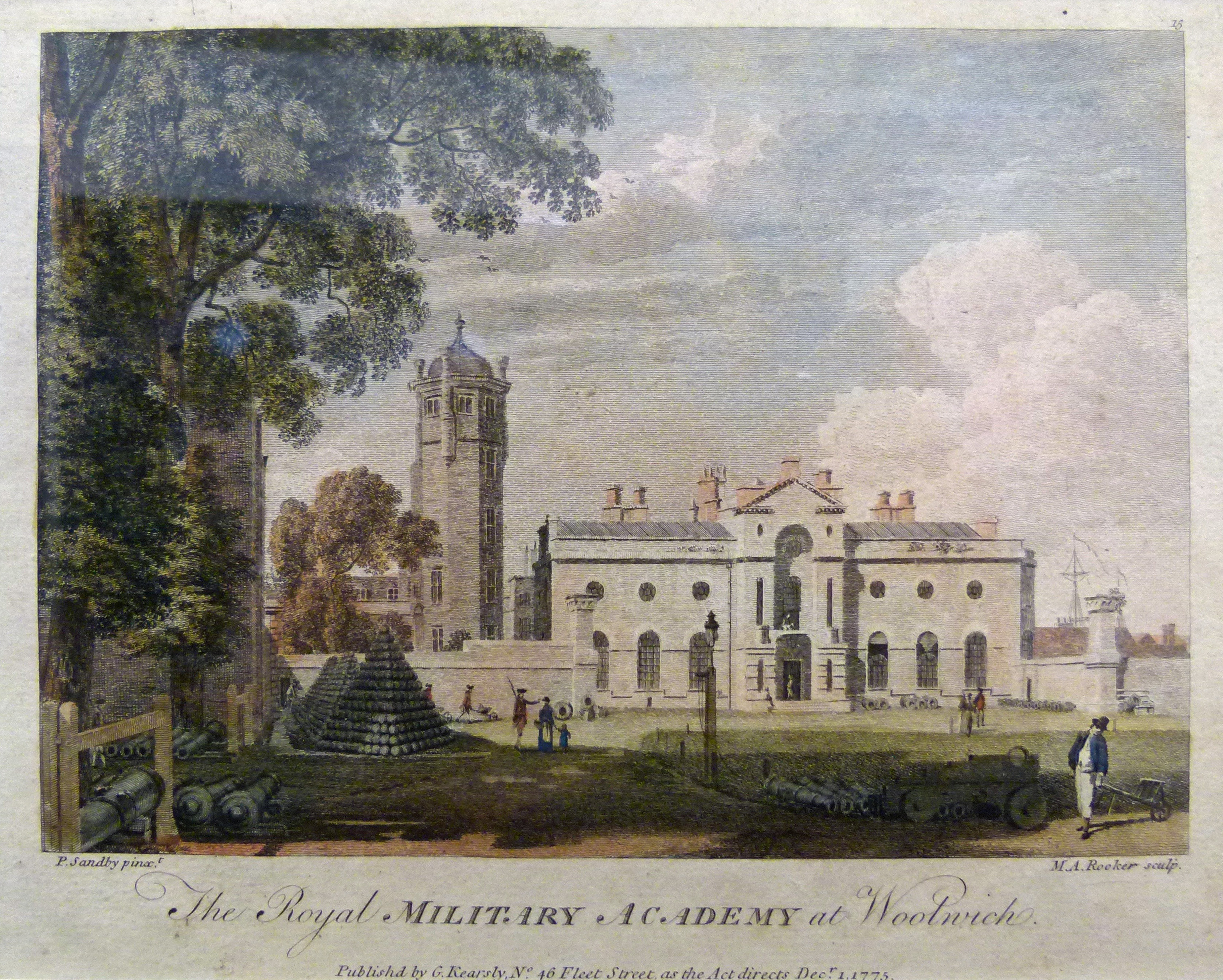 Tower Place (left) and the old Royal Military Academy in Woolwich. Print by Paul Sandby, published in 1775(?). Part of a semi-permanent exhibition dedicated to the Royal Artillery and Royal Military Academy in Greenwich Heritage Centre, Woolwich, south east London, UK.